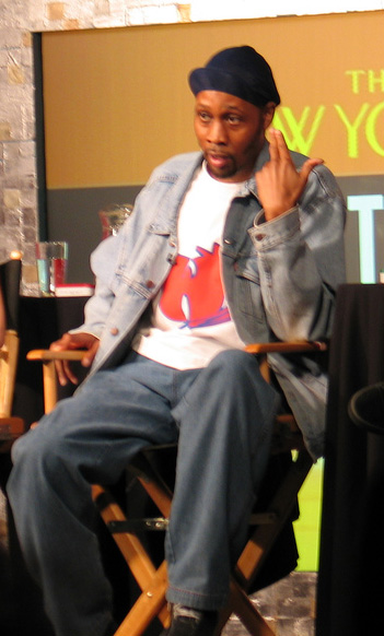 The RZA at The New Yorker festival in September 2005.